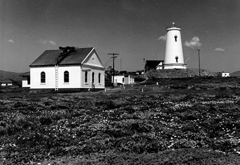 Public Domain statement here; PIEDRAS BLANCAS LIGHT TOWER WITHOUT LANTERN ROOM